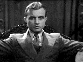 From the public domain movie A Strange Adventure (1932) (also known as The Wayne Murder Case).